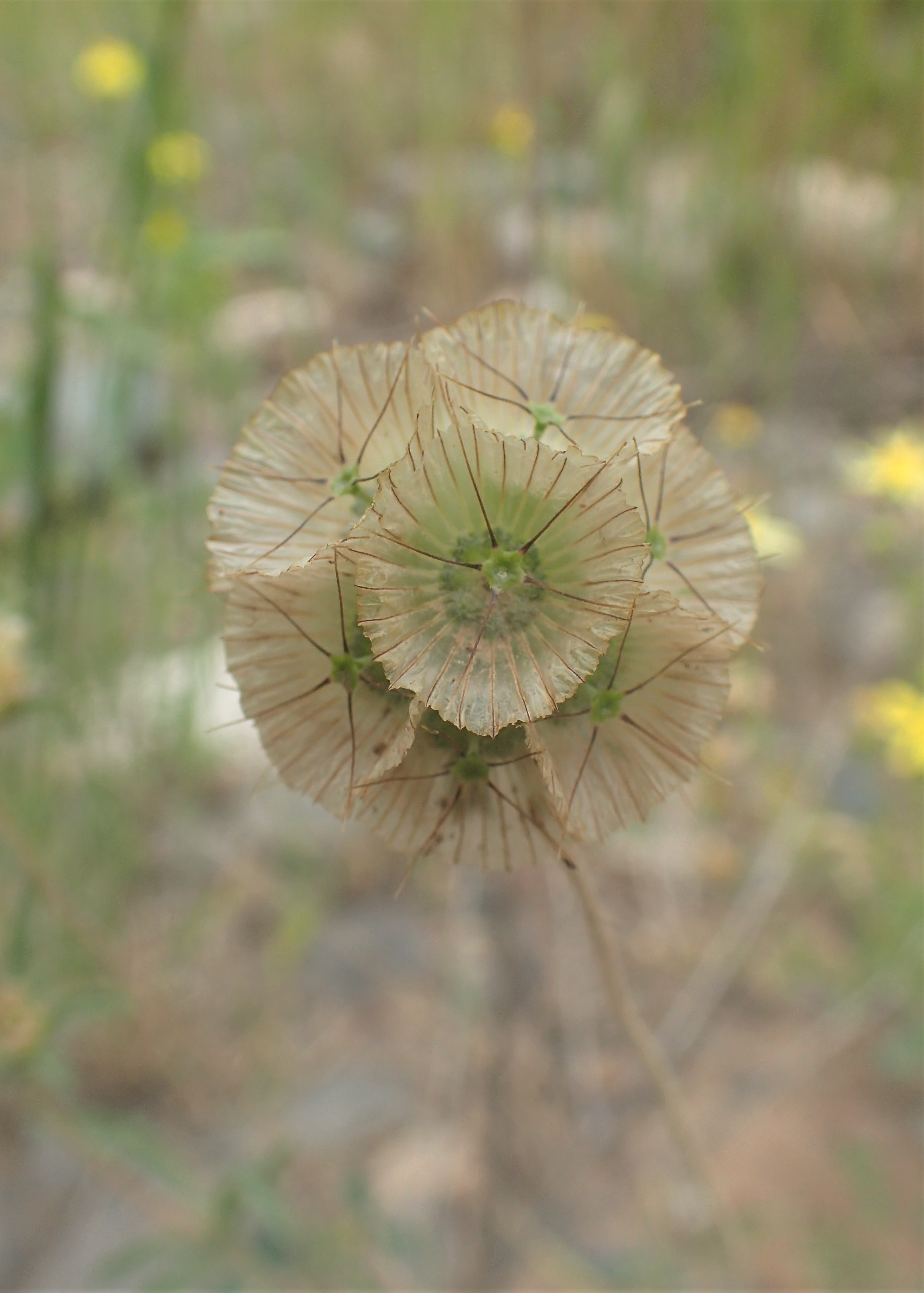 Scabiosa rotata in Hrazdan valley, Yerevan